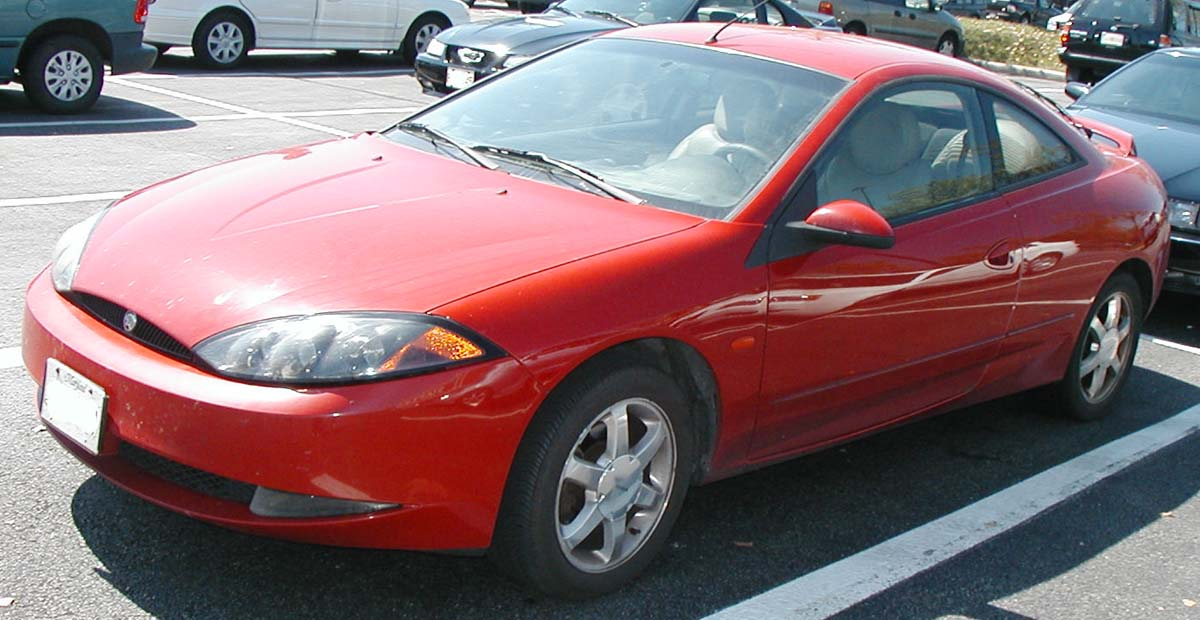 1999-2002 Mercury Cougar photographed in USA.